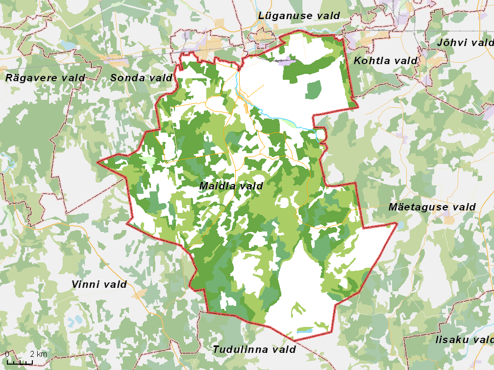 Map of municipality in Estonia